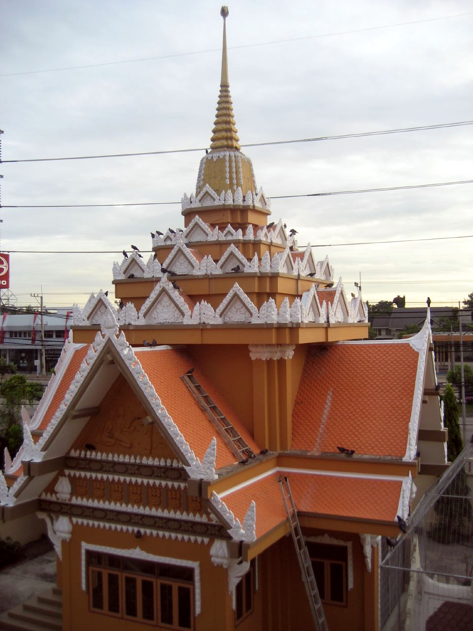 One of the buildings in Wat Songkhammakalyani Temple complex, Thailand.